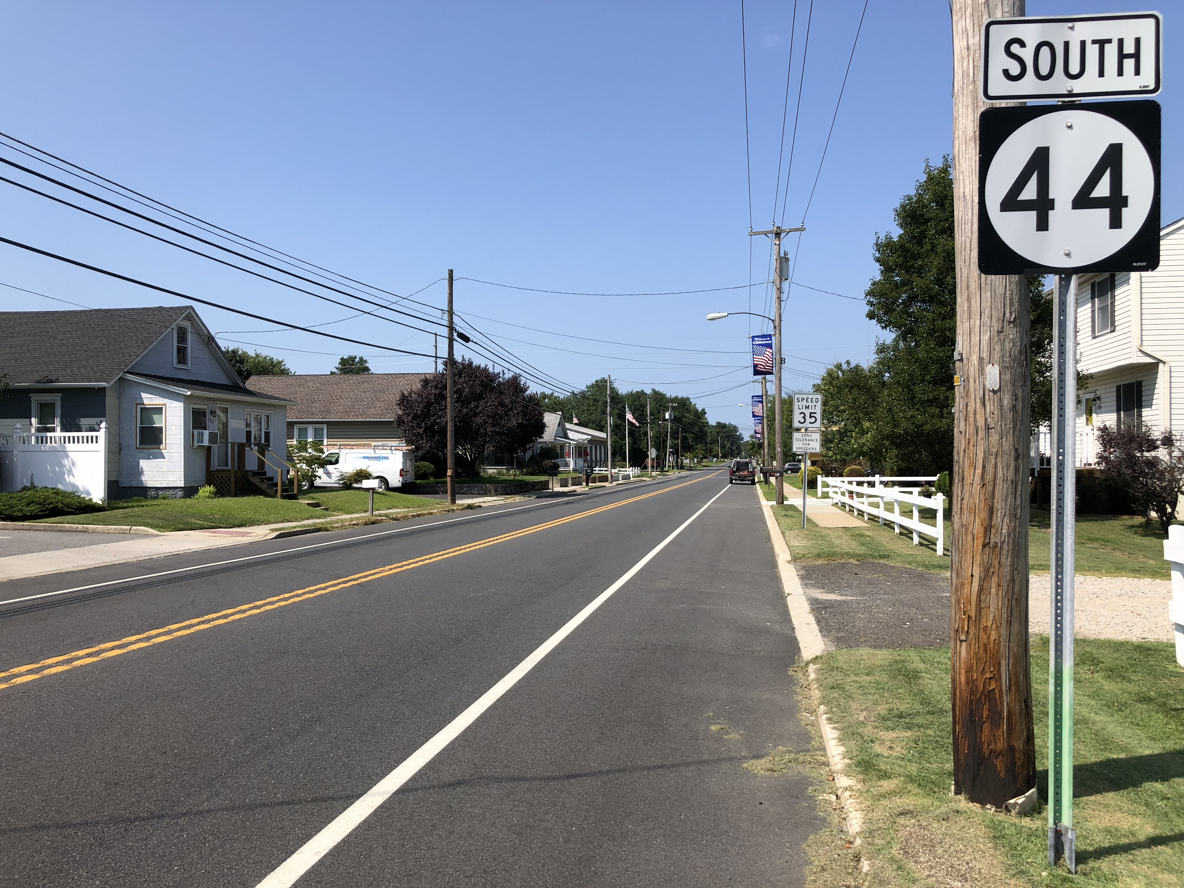 View south along New Jersey State Route 44 (East Broad Street) just south of Gloucester County Route 653 (Swedesboro-Billingsport Road) in Greenwich Township, Gloucester County, New Jersey